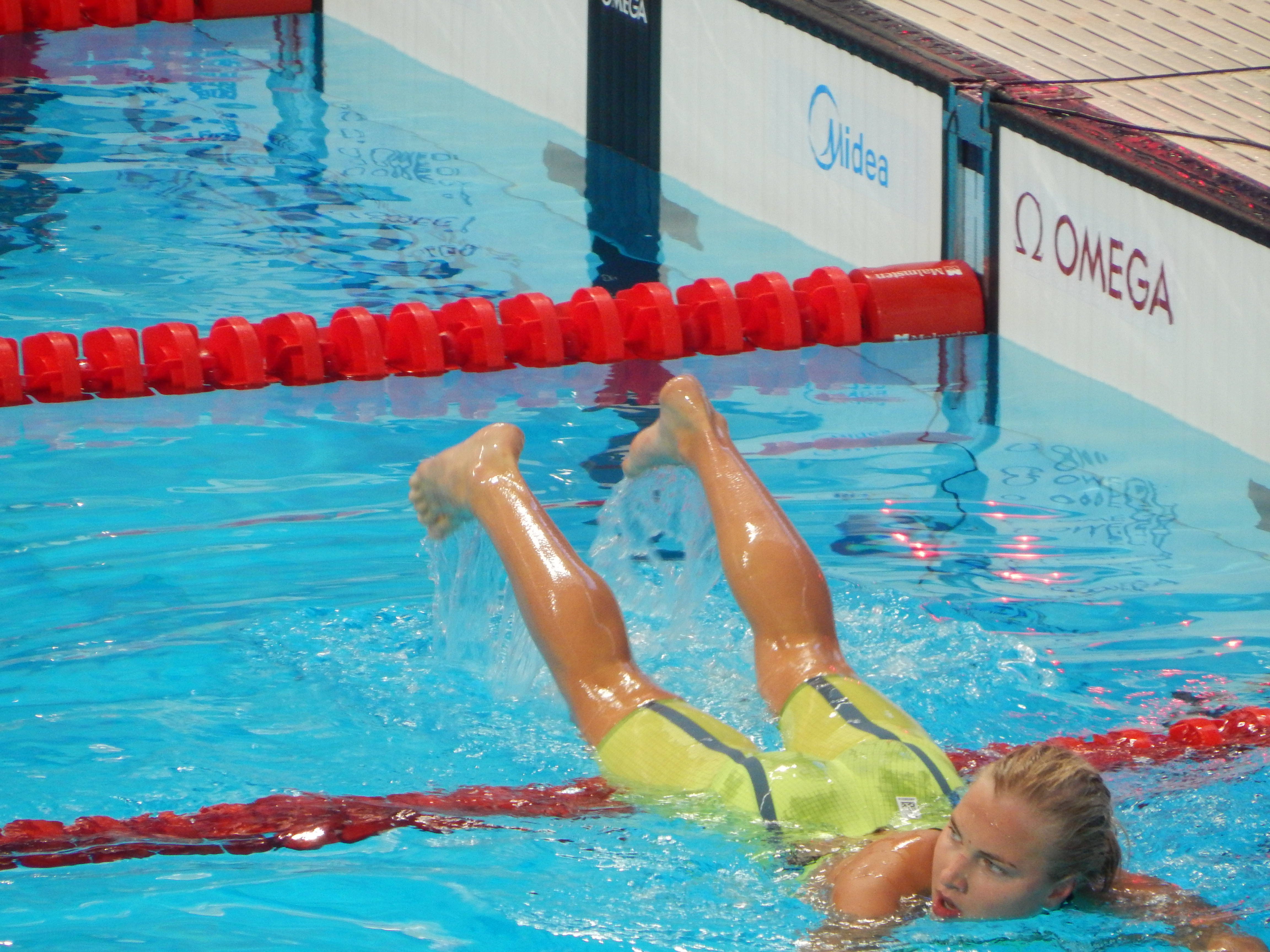 Rūta Meilutytė in women's semifinal 100m breaststroke